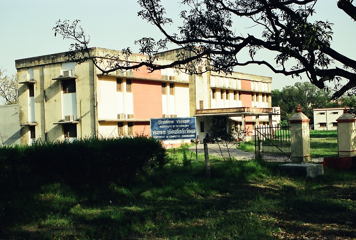 Computer Science and Engineering Department